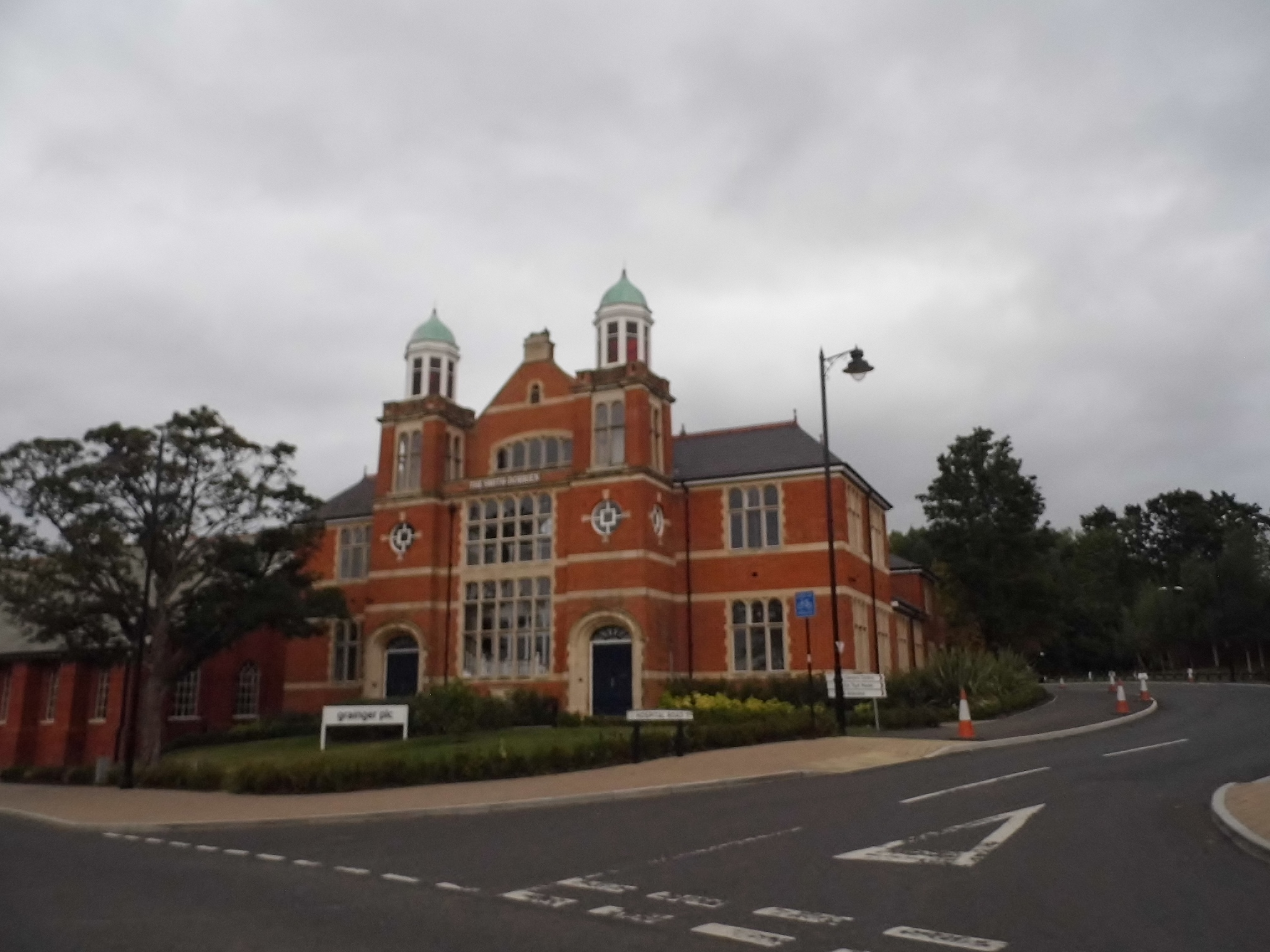 Grainger offices on Queen's Road, Aldershot